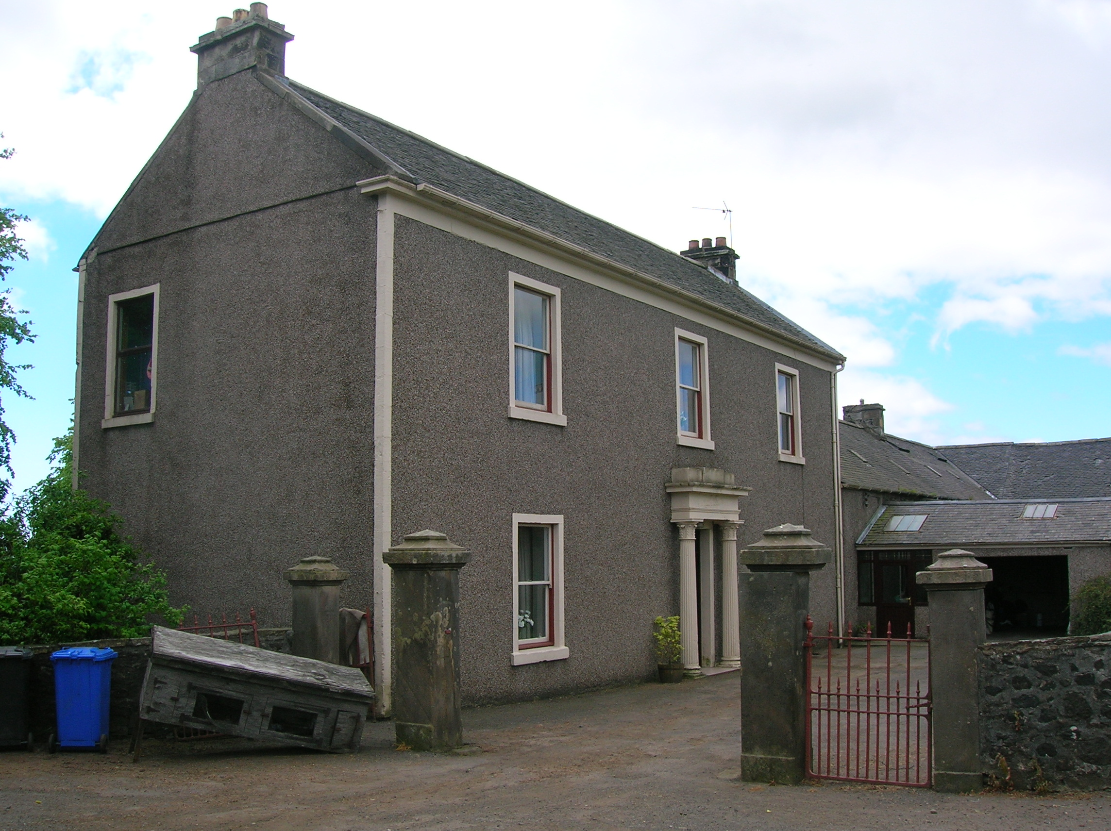 The ornamental gateposts and farmhouse at The Cuff Farm, Gateside, North Ayrshire, Scotland.